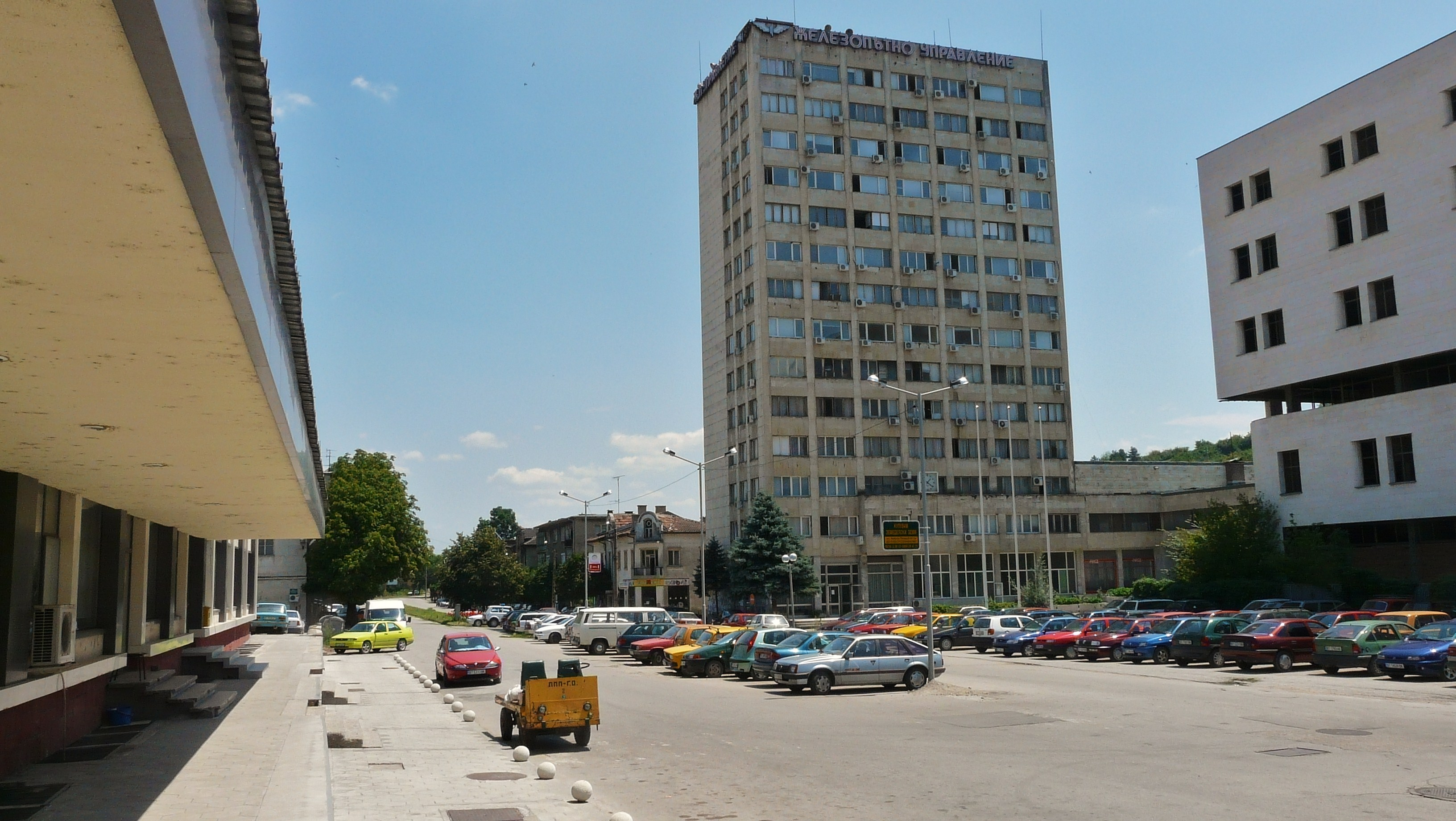 A view outside Gorna Oryahovitsa railway station in 2009 July.